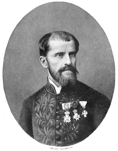 Portrait of Paul Edouard Didier Comte Riant (1836-1888)